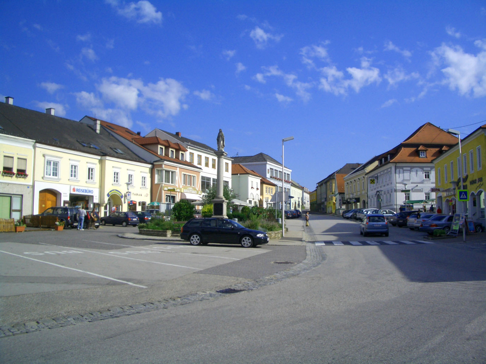 Main Place in Pregarten